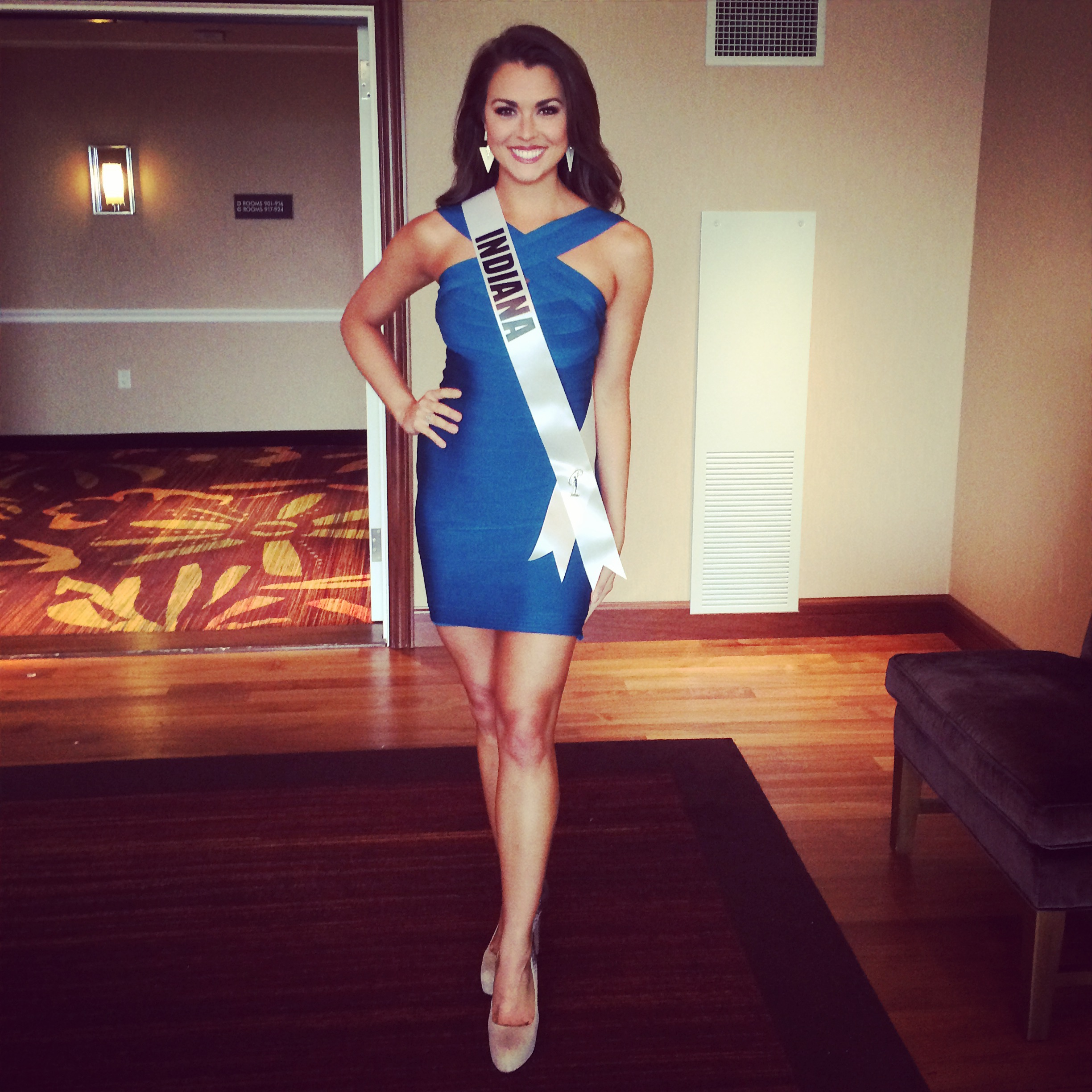 Mekayla Diehl prepares for her Interview Competition for the 2014 Miss USA competition.